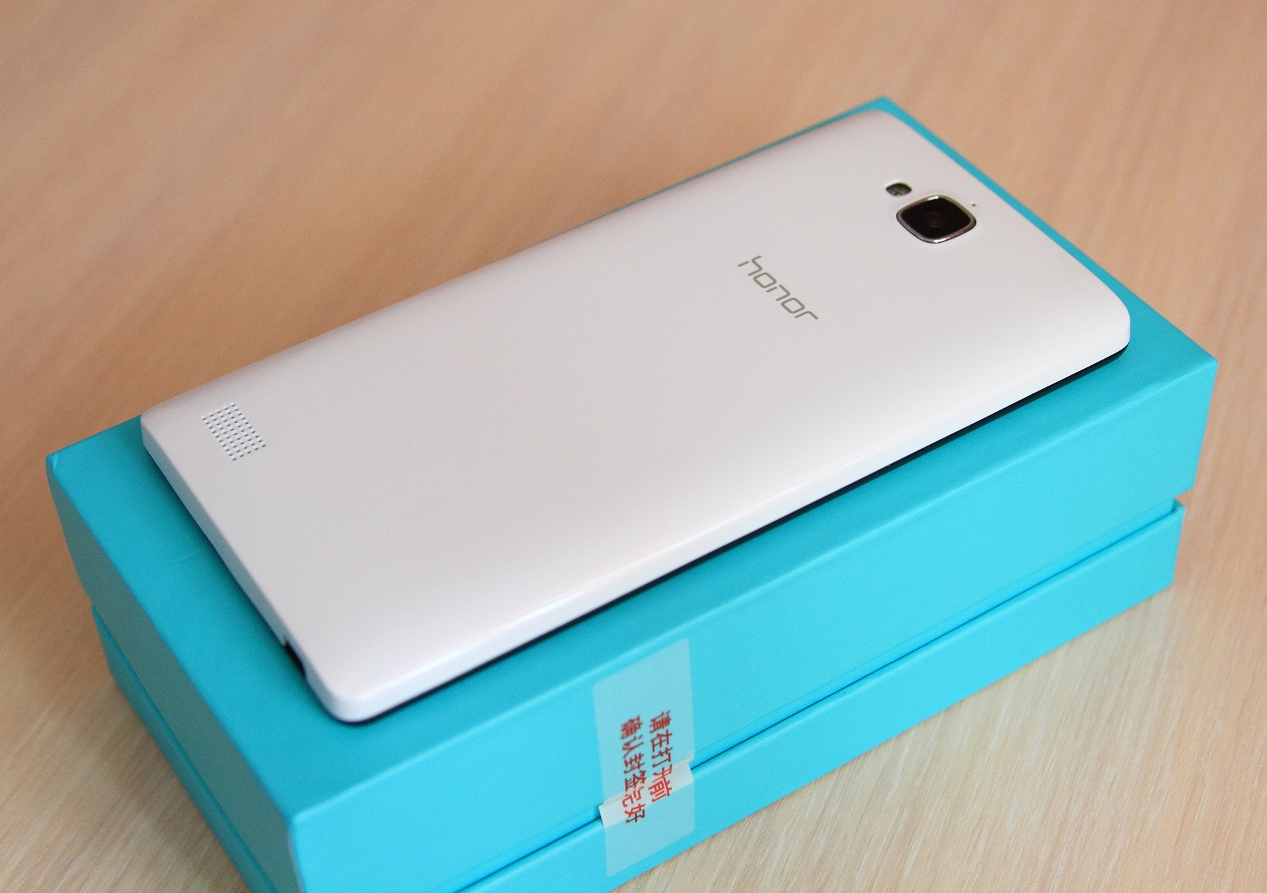 Huawei Honor 3C back